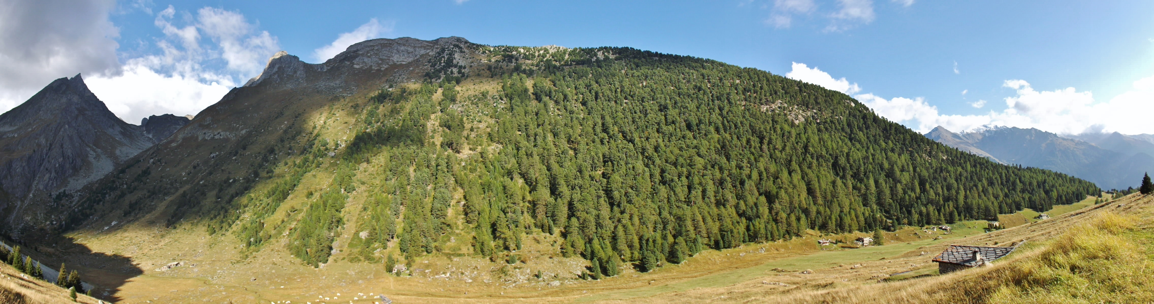 Panoramic sight of the Orgère little valley, on the heights of Modane, in the Southern of the Vanoise national park, in Savoie, France. On the left can be seen the aiguille Doran peak (3,040 meters high).